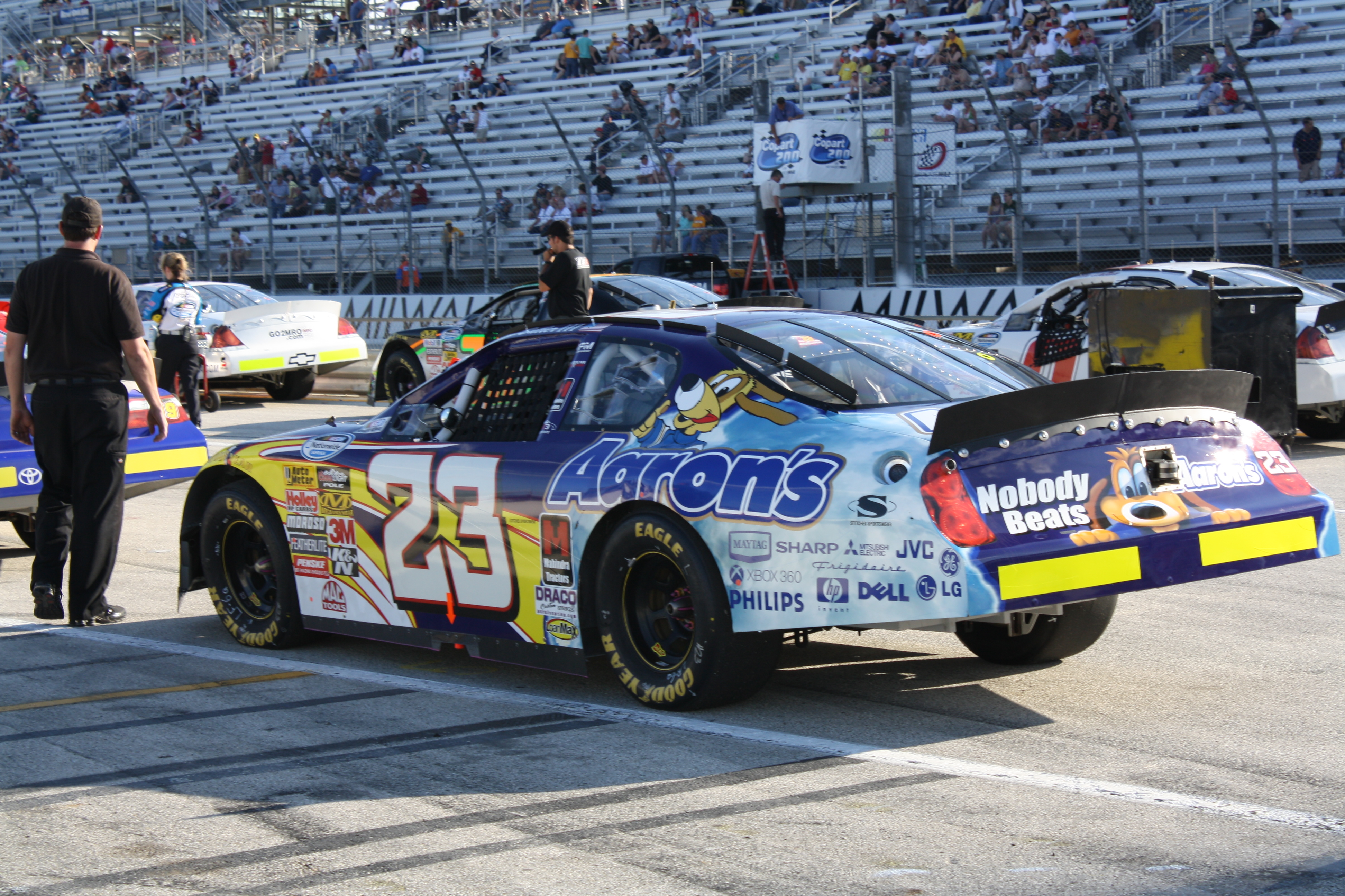 NASCAR driver Ken Butler III's Chevrolet at the 2009 Northern 250 Nationwide Series race at the Milwaukee Mile.